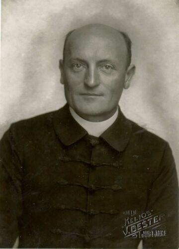 Franc Ksaver Meško (1874-1964)